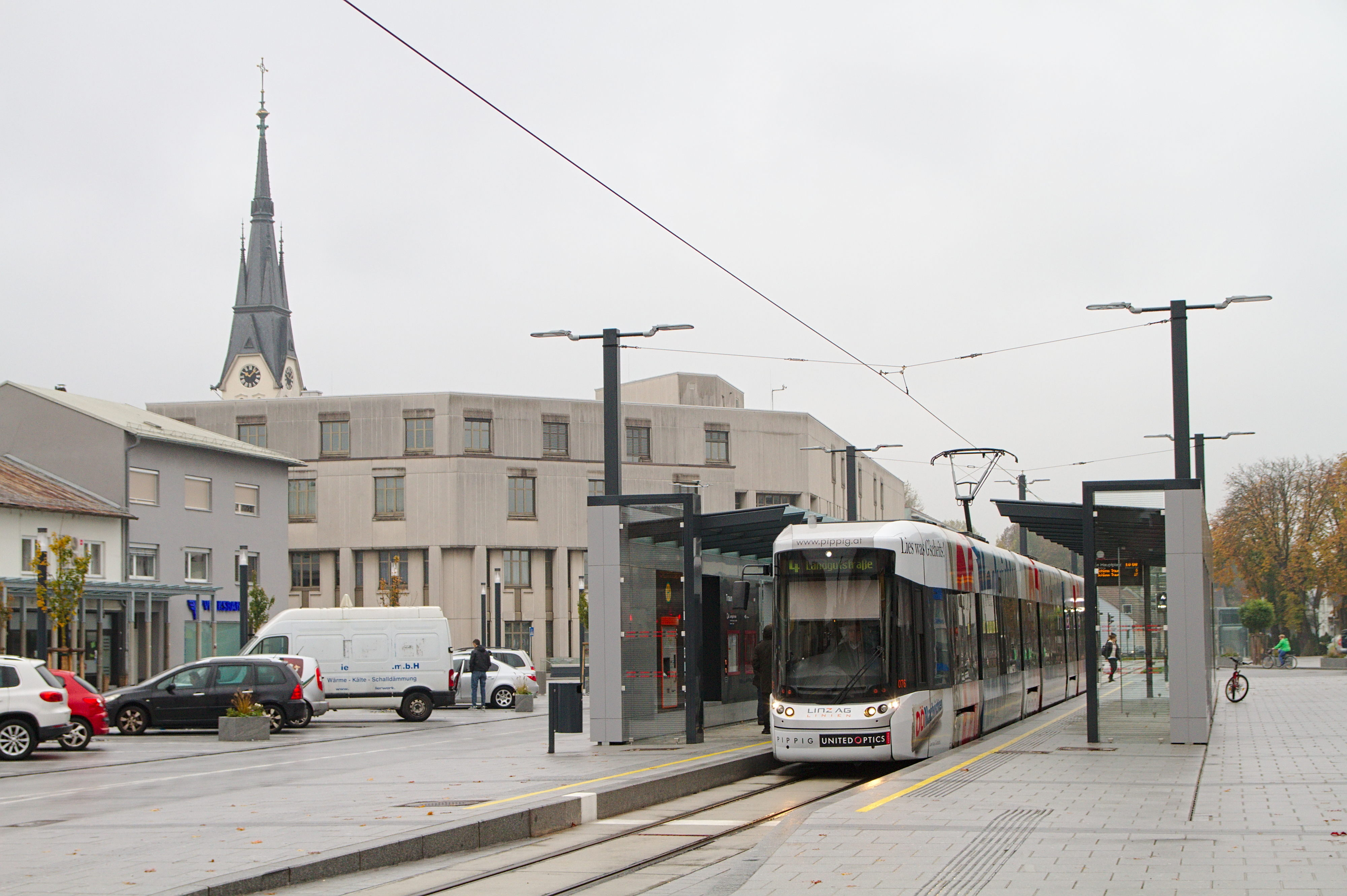 Line 4 tram at Traun Hauptplatz stop.